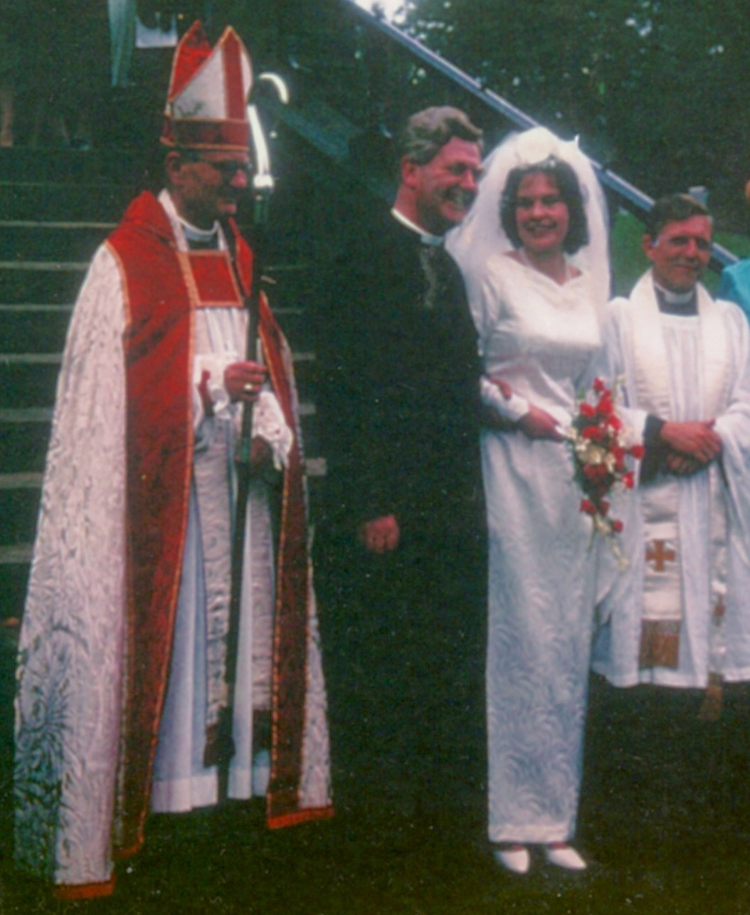 Bishop Howard Cruse (Bishop of Knaresborough) at the wedding of the Rev'd Guy L'Estrange to Miss Helen Ashton, Yorkshire, 29 September 1965.